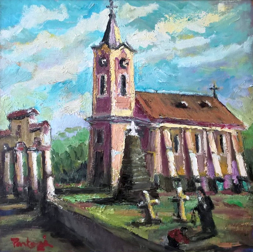 Valeriu Pantazi - Biserica greco-catolică din Racovița, Sibiu